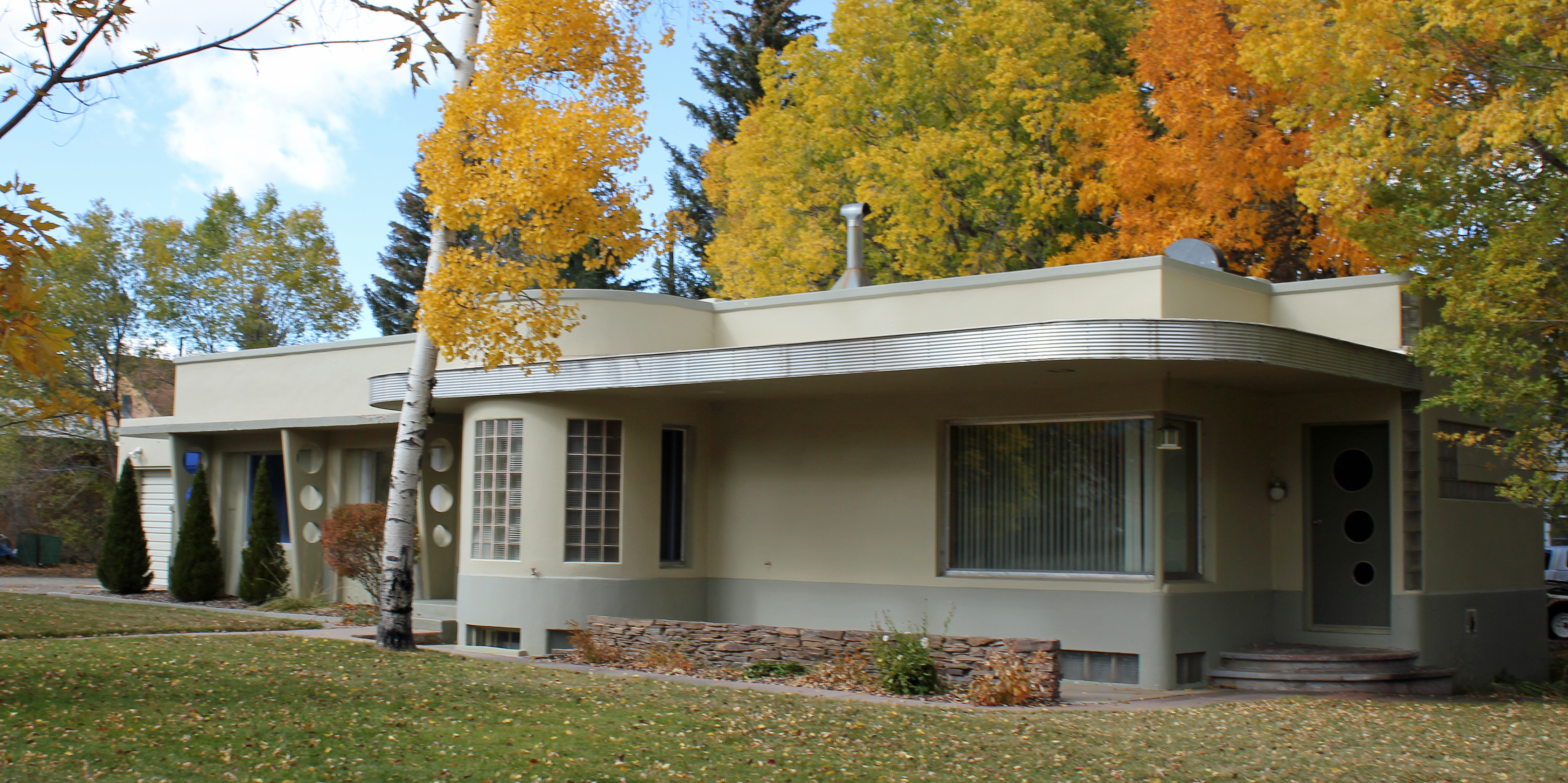 The Heister House, located at 102 Poncha Boulevard in Salida, Colorado. The property is listed on the National Register of Historic Places.